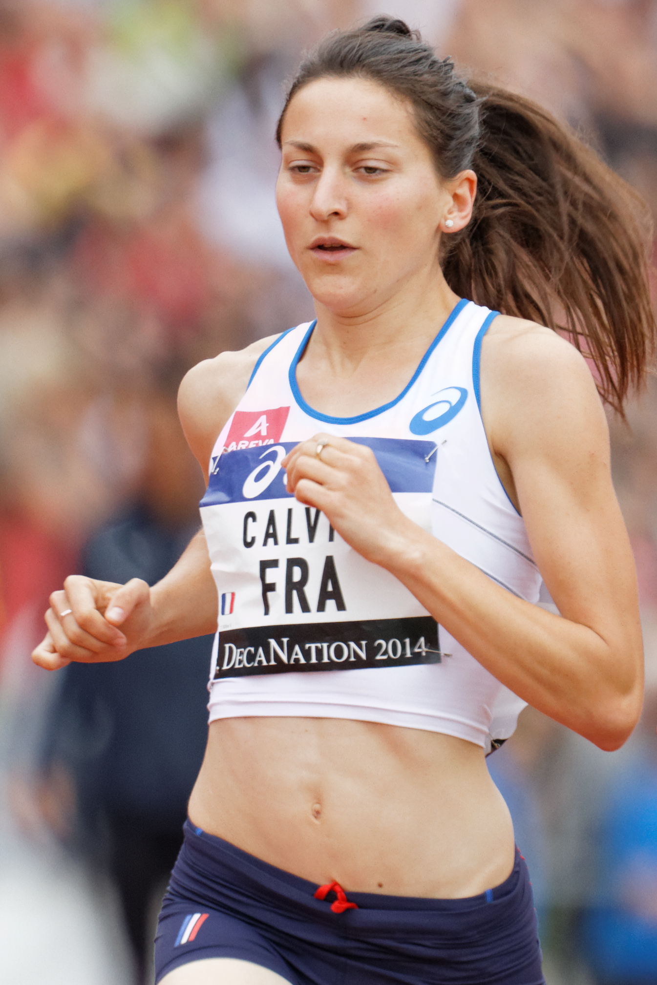 DécaNation 2014. 1500m.